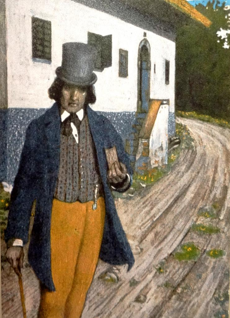 Postcard of France Prešeren.